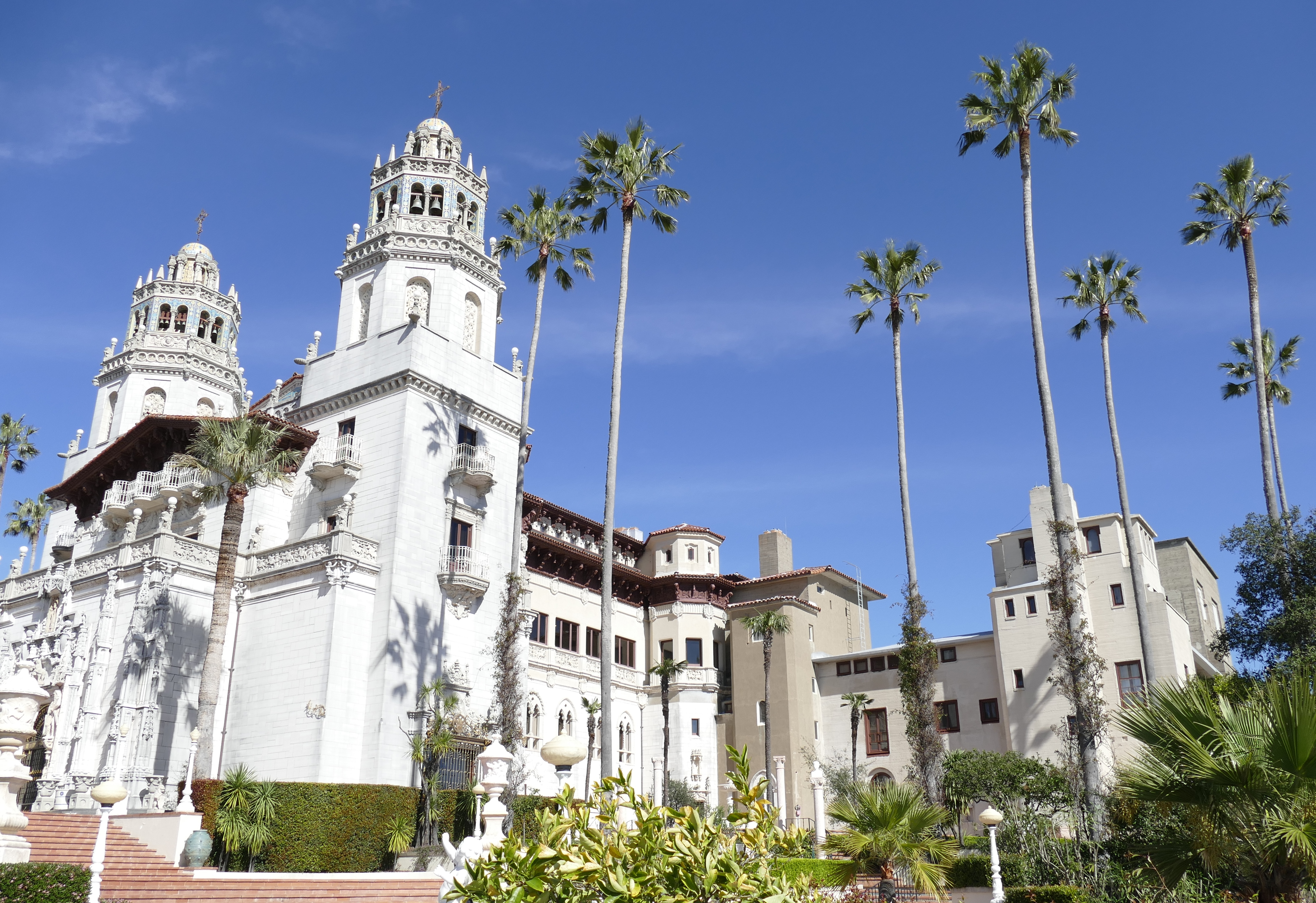 Hearst Castle in San Simeon, California